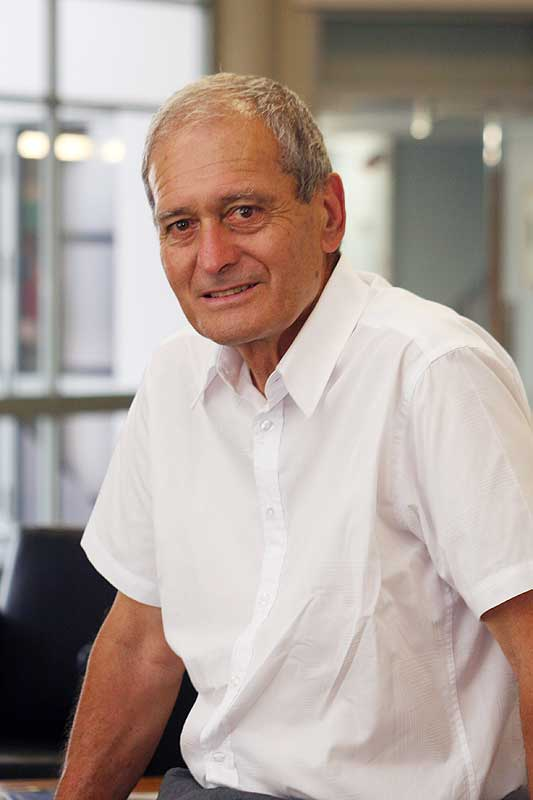 Depicted person: Mason Durie – New Zealand psychiatrist